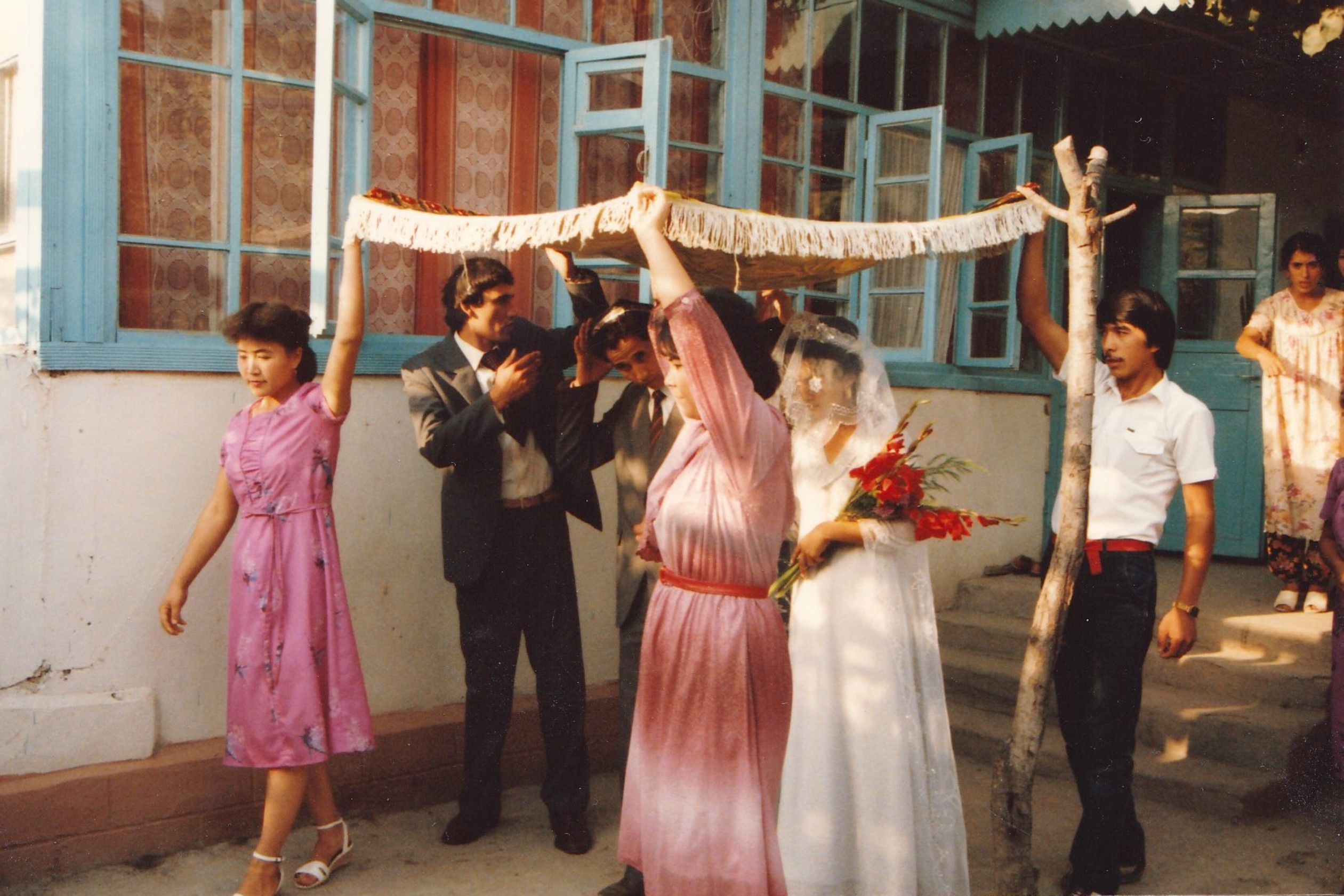 A bridal couple on a procession towards a wedding party. Fergana, Uzbekistan.